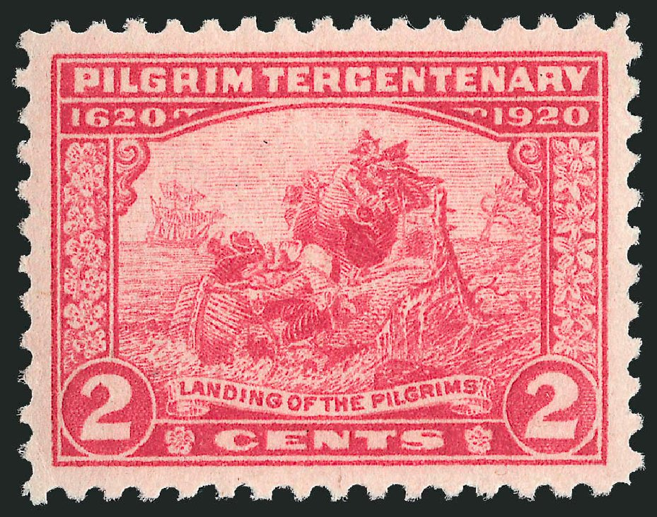 United States 2 cent postage stamp issued in 1920 to celebrate the tercentenary of the landing of the Mayflower in 1620